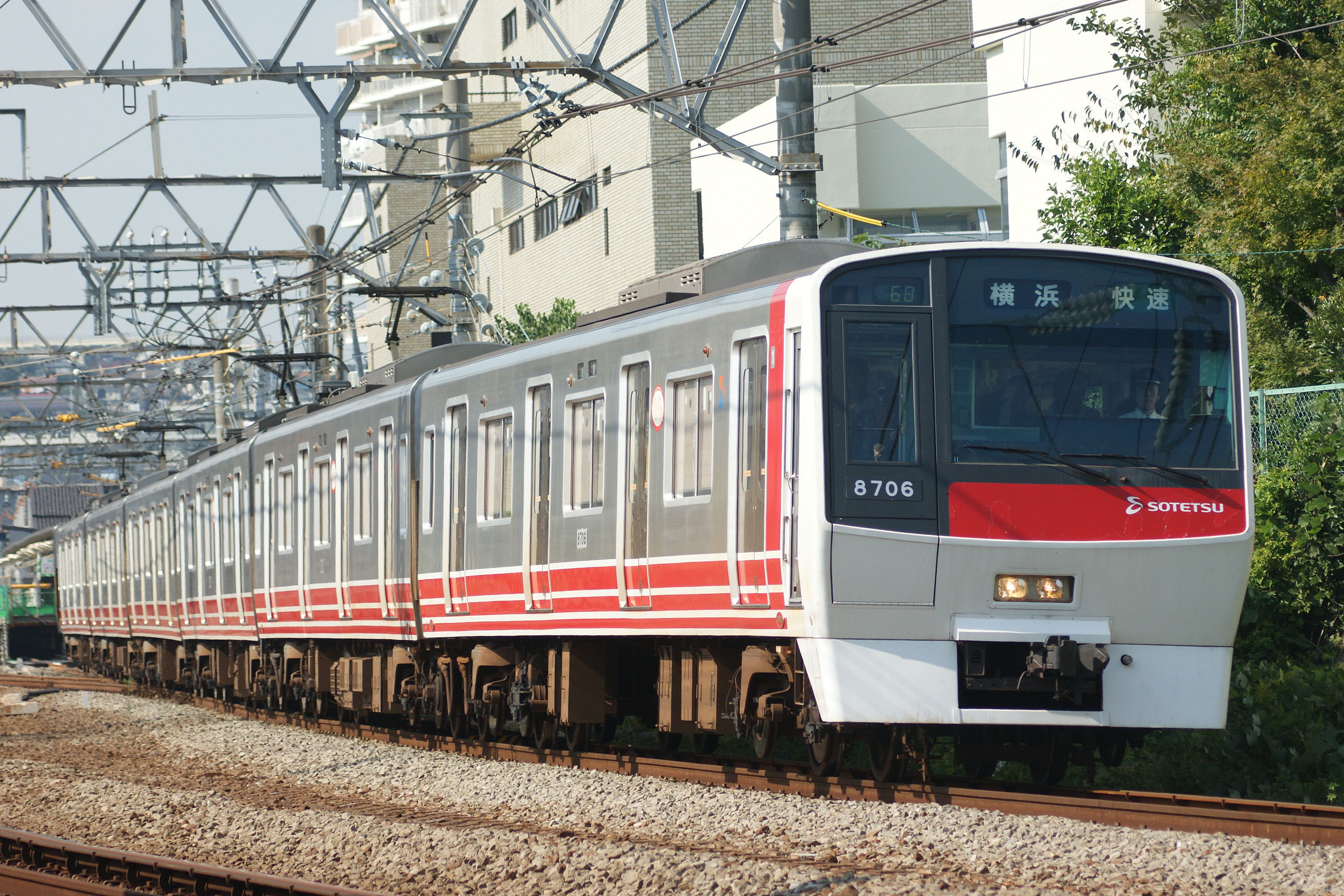 Sagami Railway 8000 series EMU set 8706 in original livery